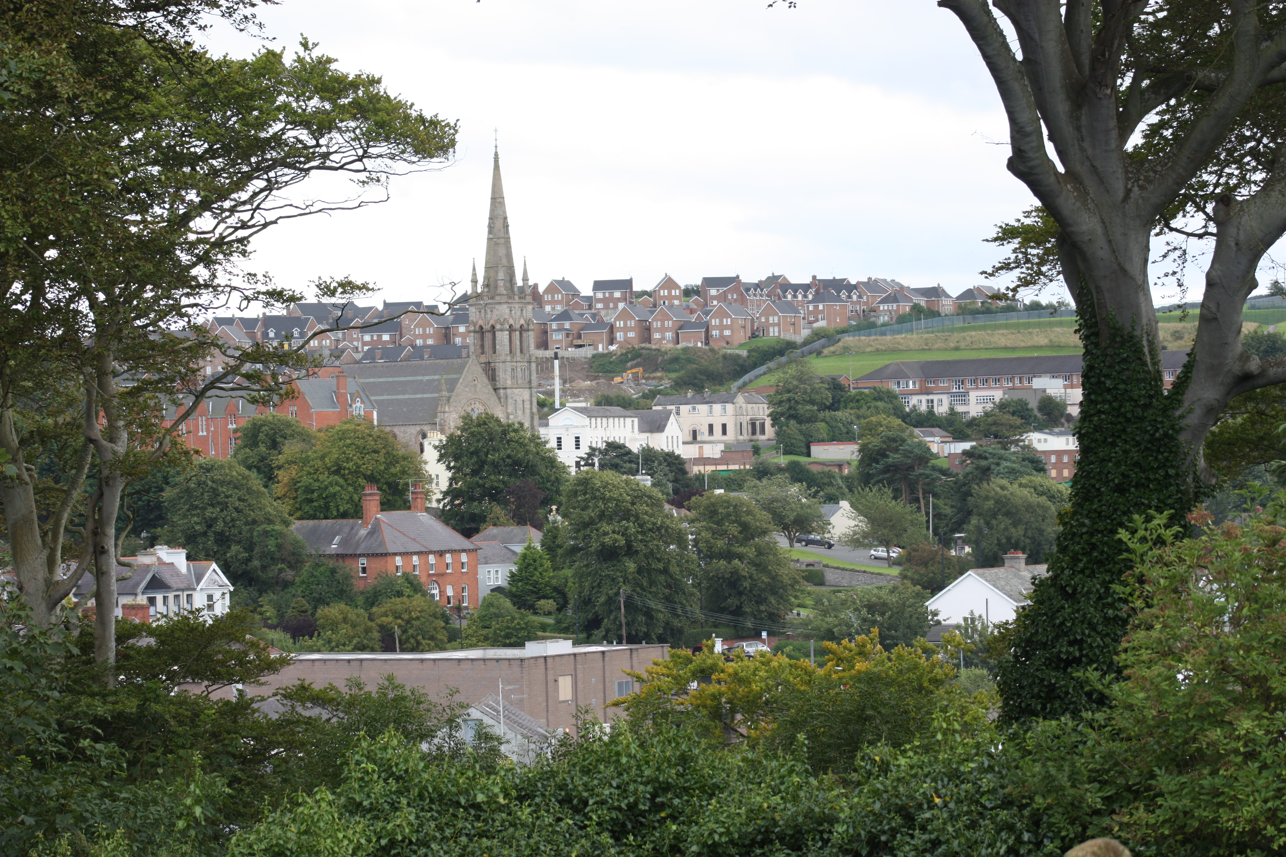 Downpatrick, County Down, Northern Ireland, August 2009 (viewed from The Mall, English Street)